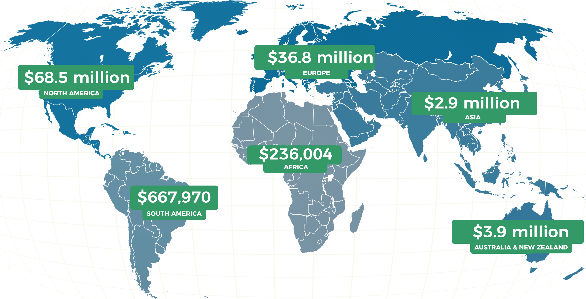 Donations by Continent From FY1819 Wikimedia Fundraising Report